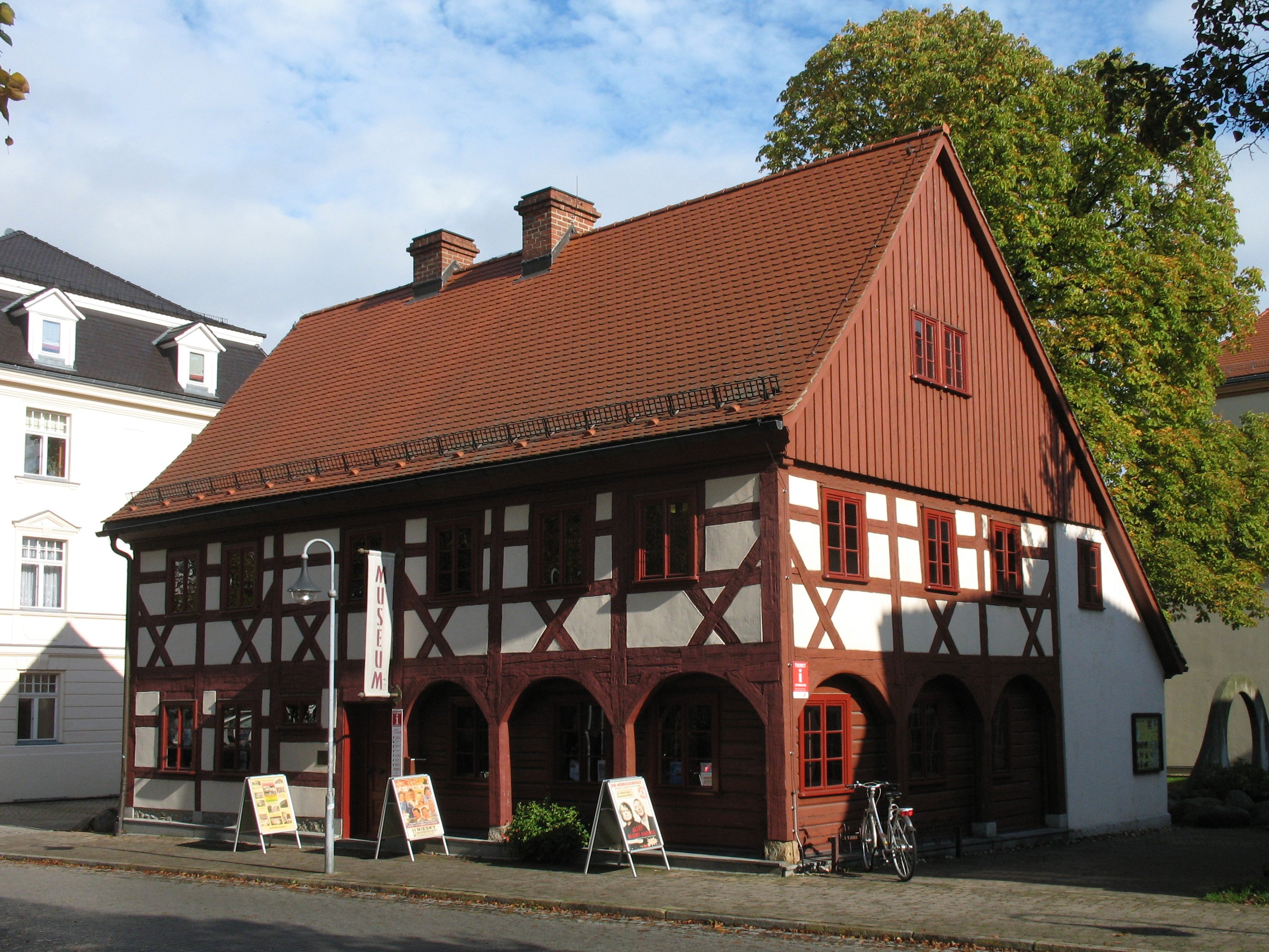 Raschke’s House in Niesky in Saxony, Germany (oldest house of Niesky)